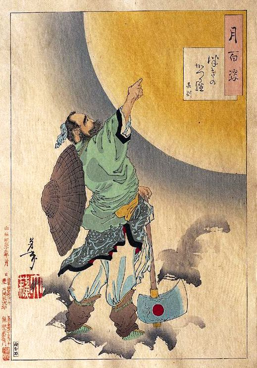 Cassia-tree moon (Tsuki no katsura)